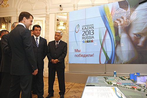 During the presentation of the 2013 Universiade in Kazan, 2008